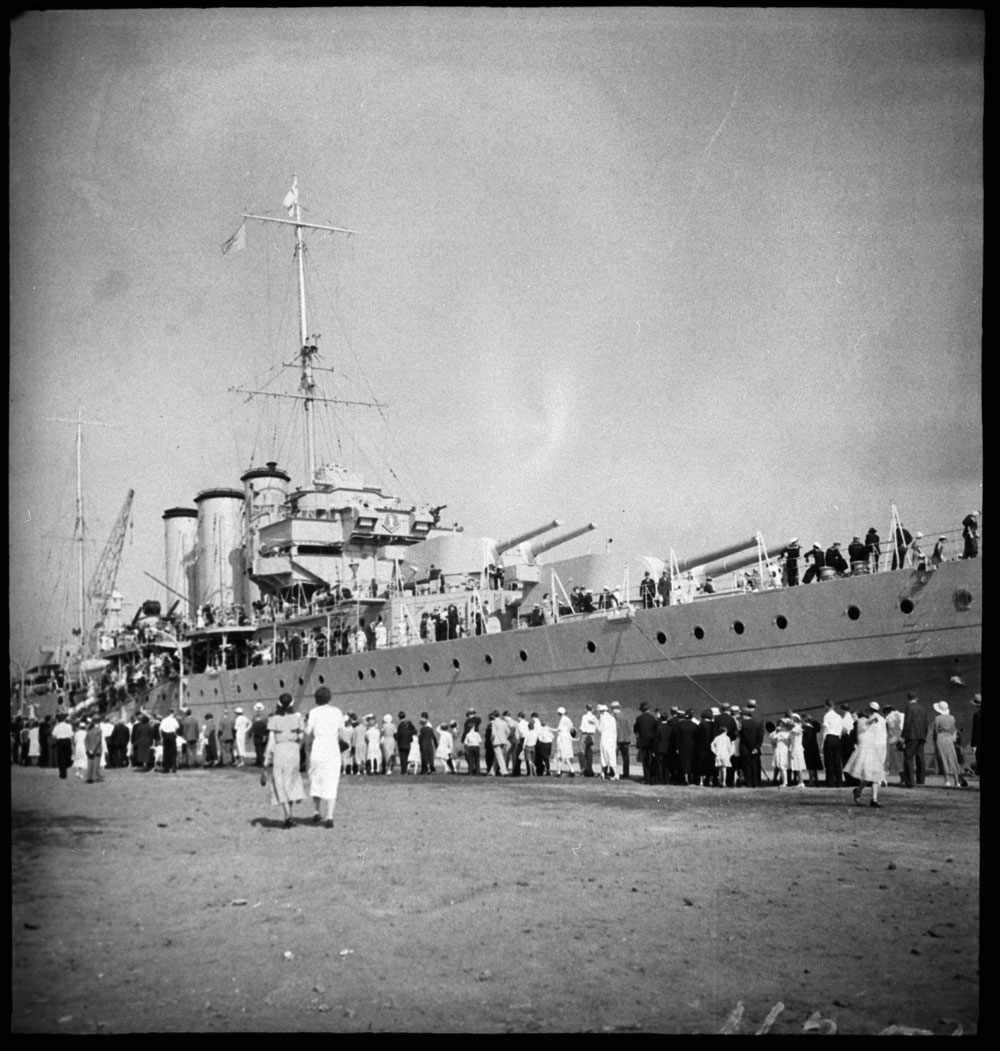 H.M.S. "Norfolk" at Montreal, Canada.